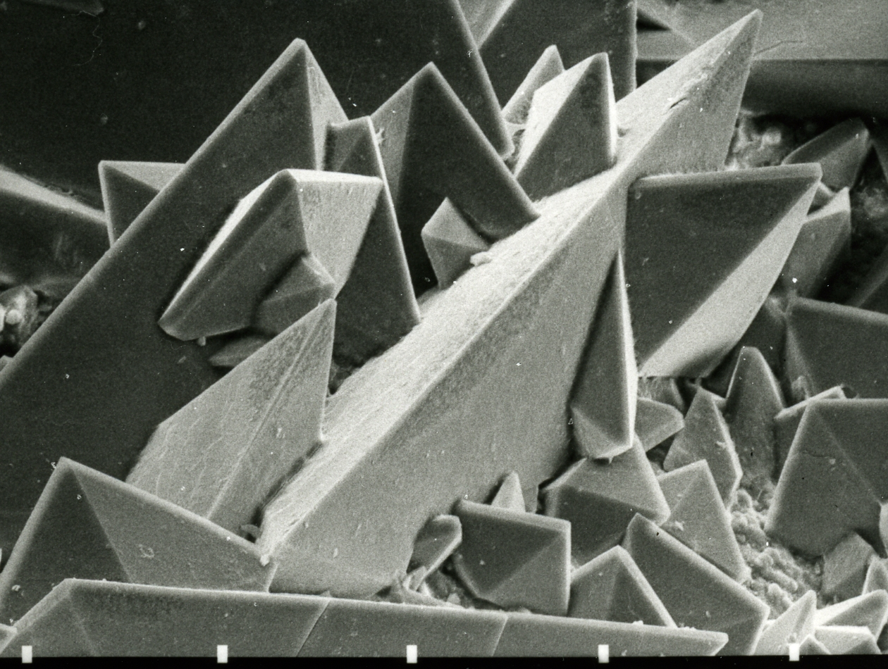 The surface of a kidney stone shows tetragonal crystals of Weddellite (calcium oxalate dihydrate). Scanning Electron Micrograph (SEM) taken at 30 KV, horizontal length of the picture represents 0.45 mm of the figured original, image number 10.